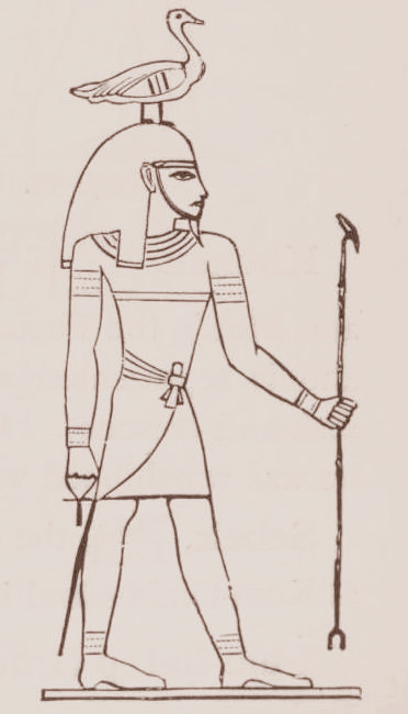 Drawing of the god Geb.